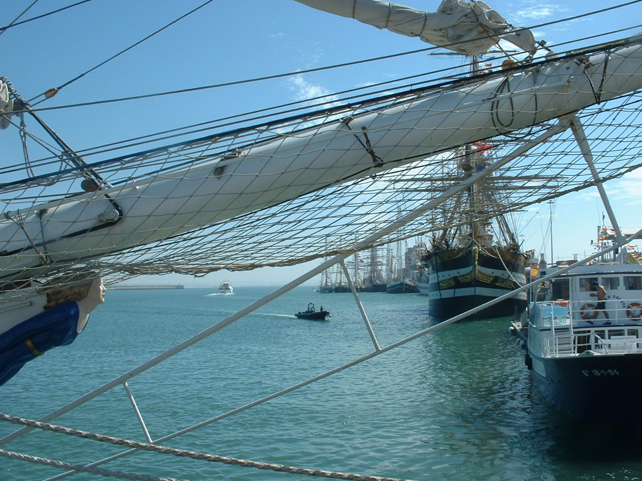 27 July 2006, before the 50-year anniversary race of The Tall Ships' Races. To the left, the figurehead of the Norwegian sailing vessel Christian Radich